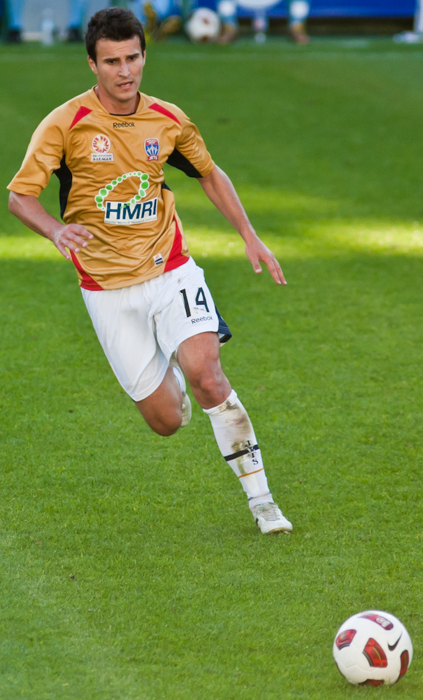 Labinot Haliti playing for the Newcastle Jets in the 2010/11 A-League.